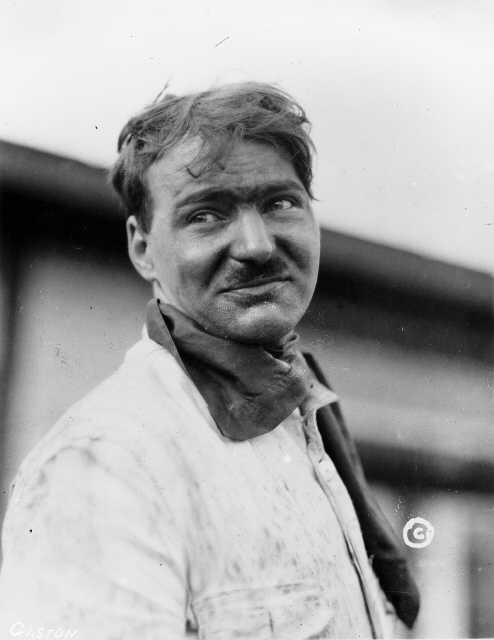 Photo of Gaston Chevrolet, the younger of the Chevrolet brothers.